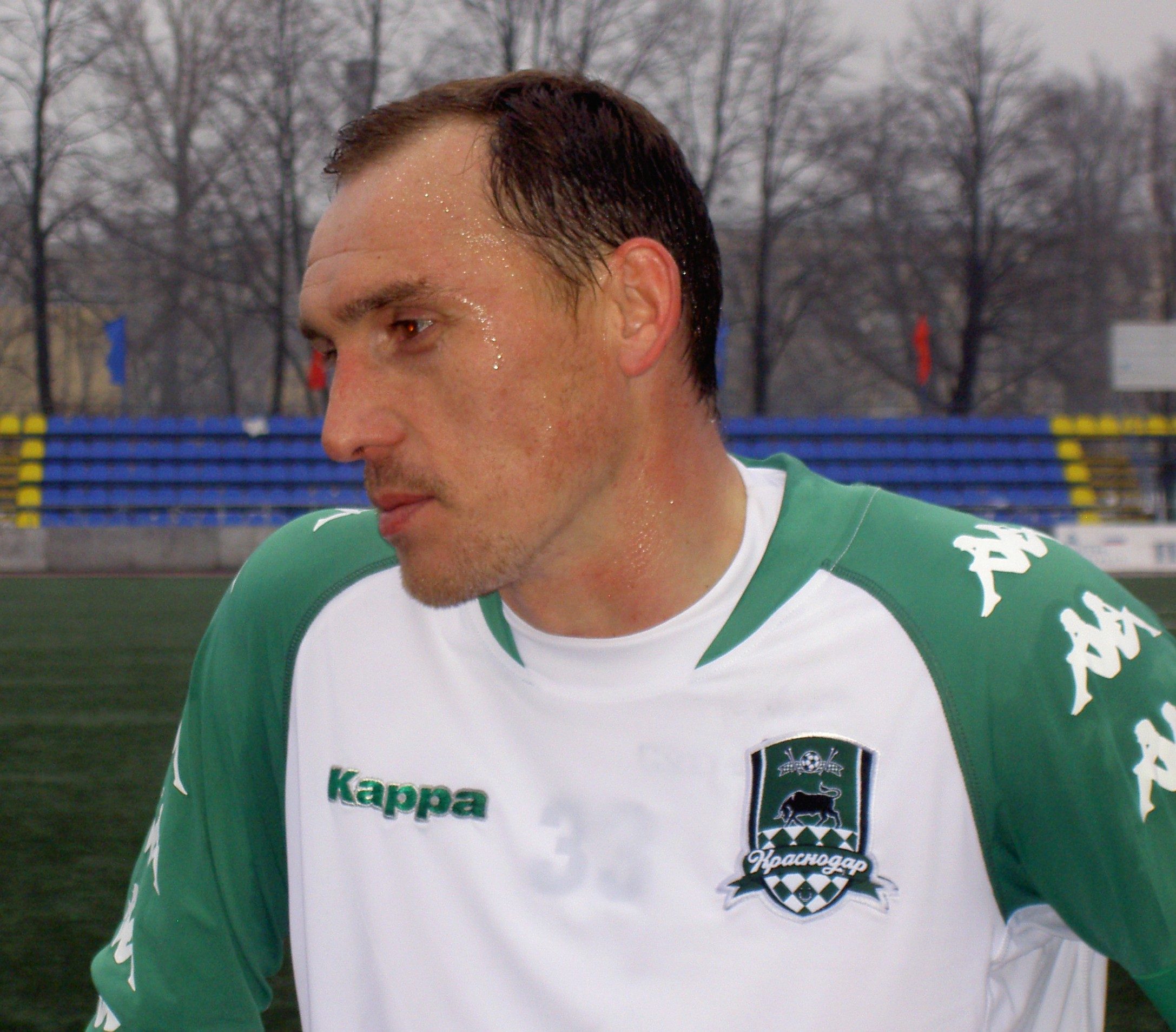 Demenko Maxim Vladimirovich